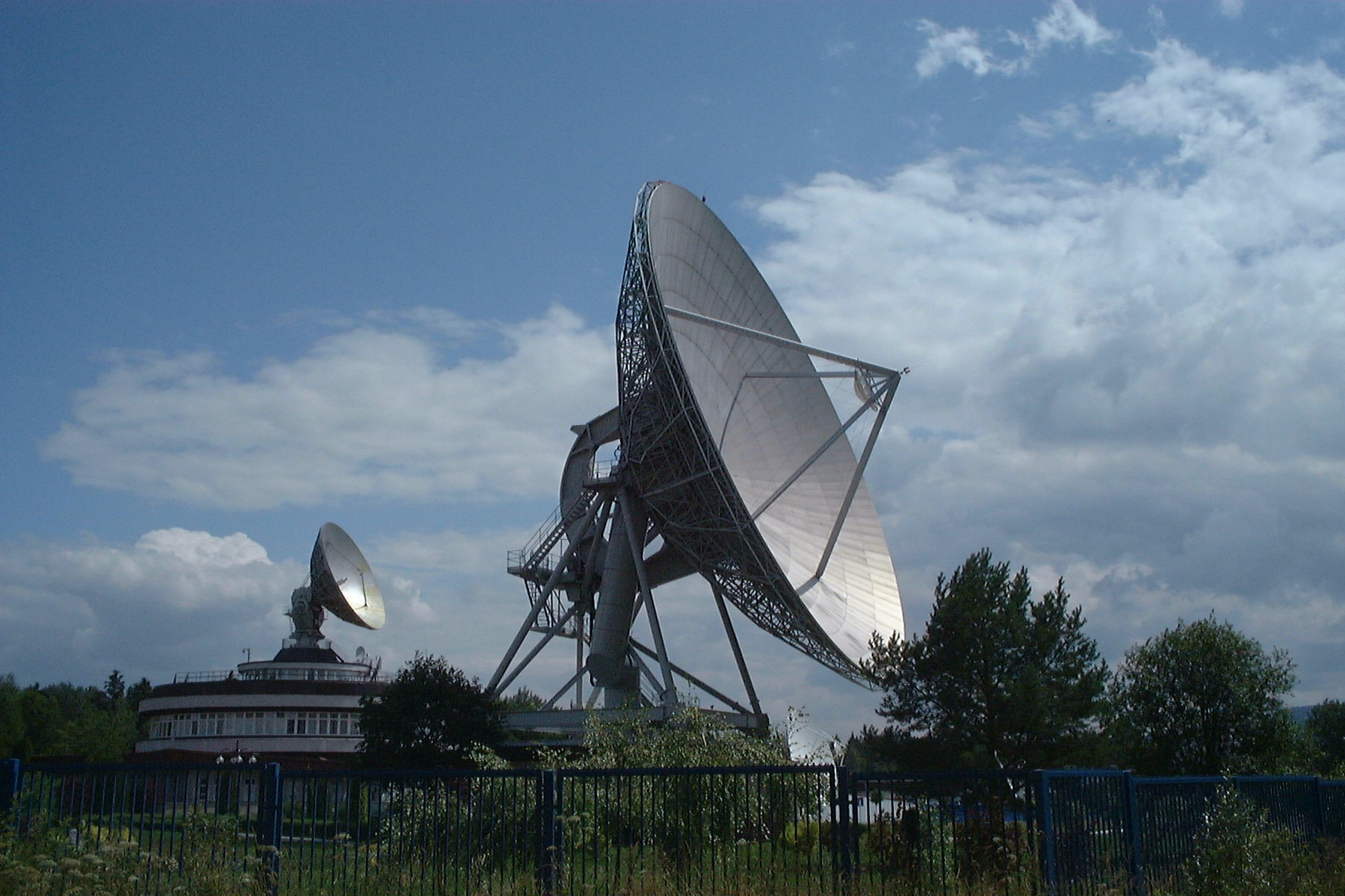 Poland, Psary - ground station for satellite communication. Photo taken by me.